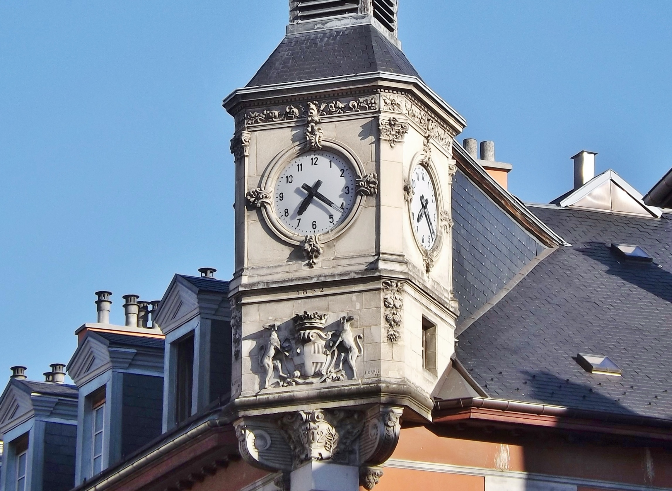 Sight of the public clock tower and the coat of arms of Chambéry, city where they take place over the place Saint-Léger, in Savoie, France.